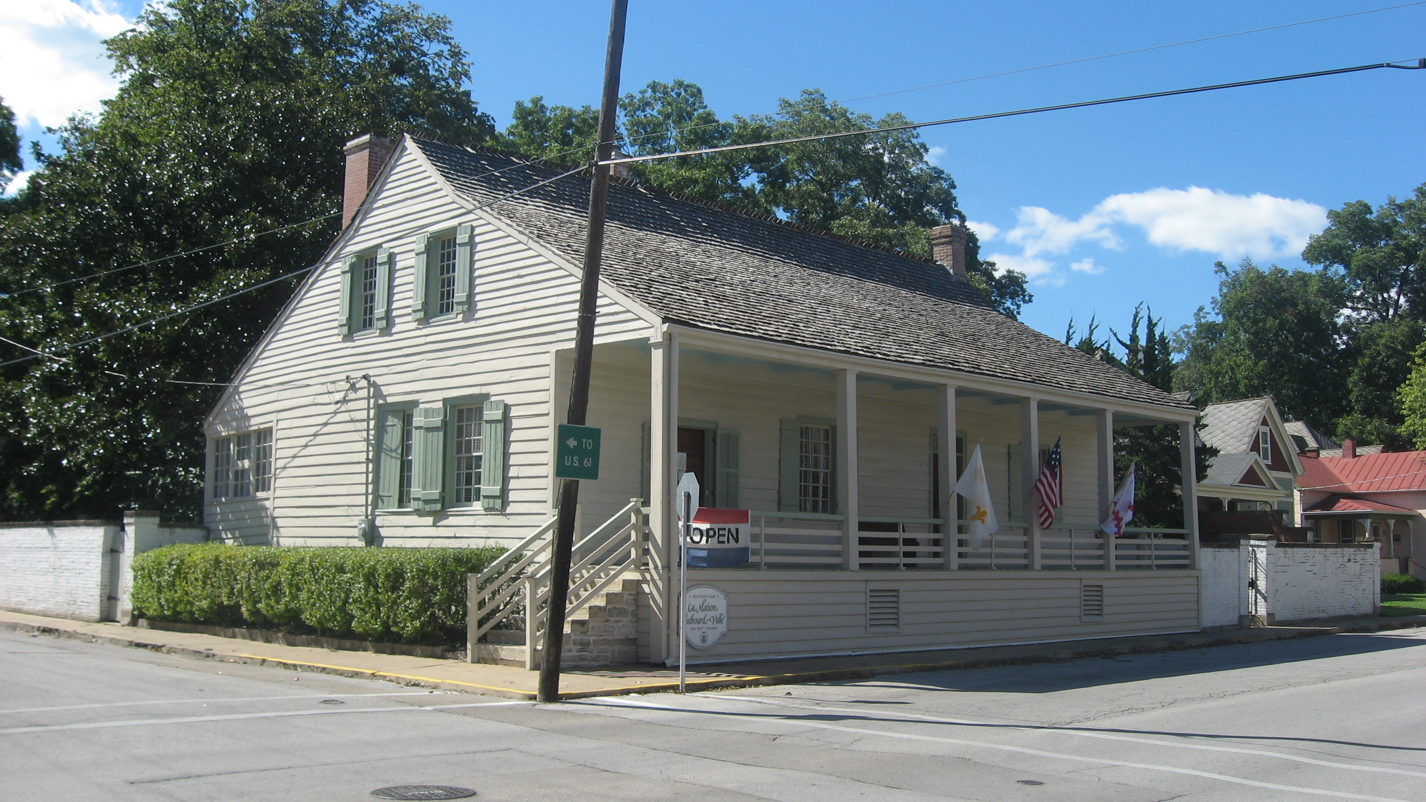 Front and southern side of the Jacques Dubreuil Guibourd House, located on the northwestern corner of the junction of Fourth and Merchant Streets in Ste. Genevieve, Missouri, United States. Built in 1800, it is listed on the National Register of Historic Places, and it is part of a National Historic Landmark-designated historic district, the Ste. Genevieve Historic District.